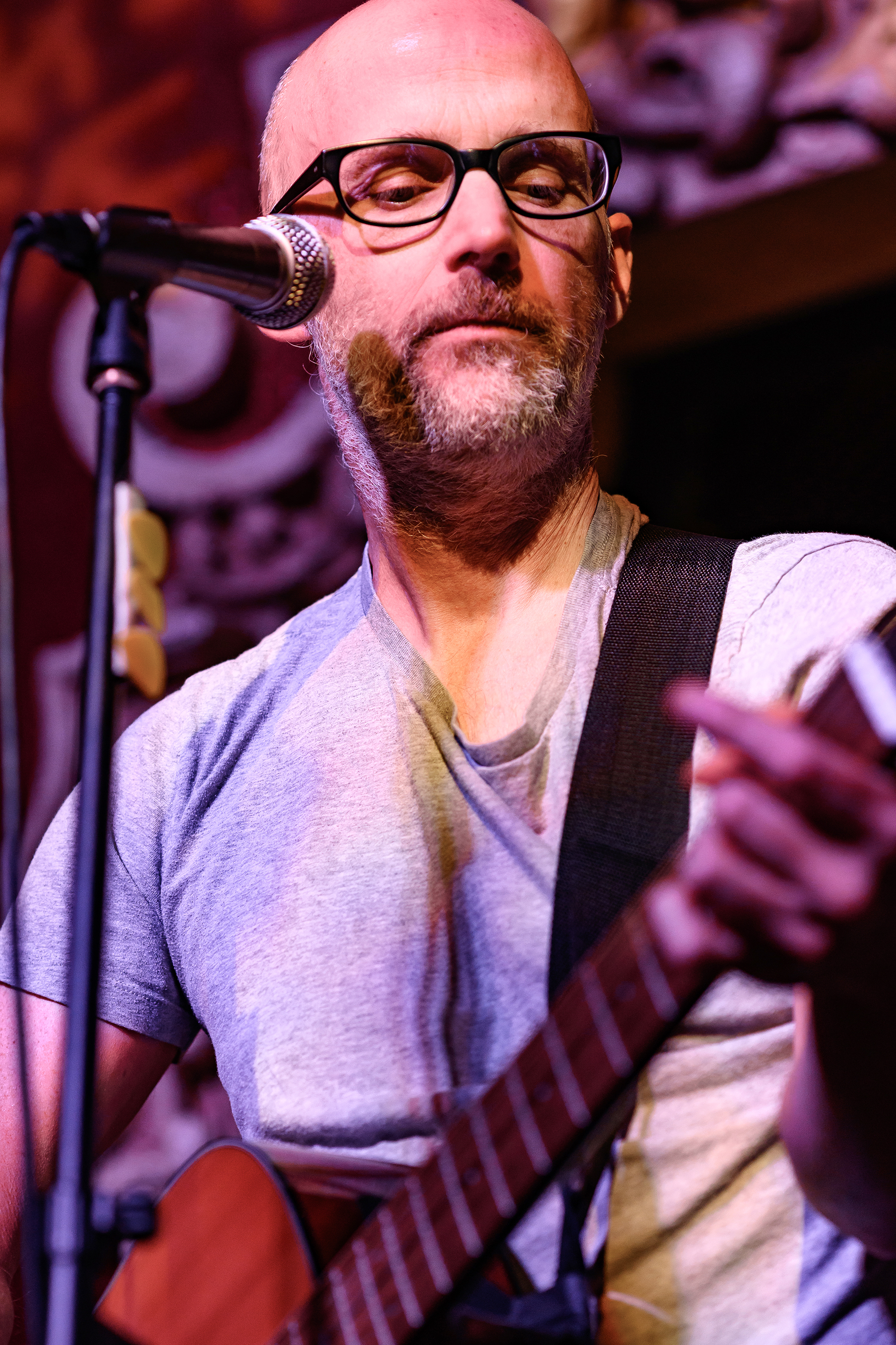 Moby (with Julie Mintz and Mindy Jones) performing live at School Night at Bardot Hollywood in Los Angeles, California, on Monday, December 17, 2018. Shot for School Night.